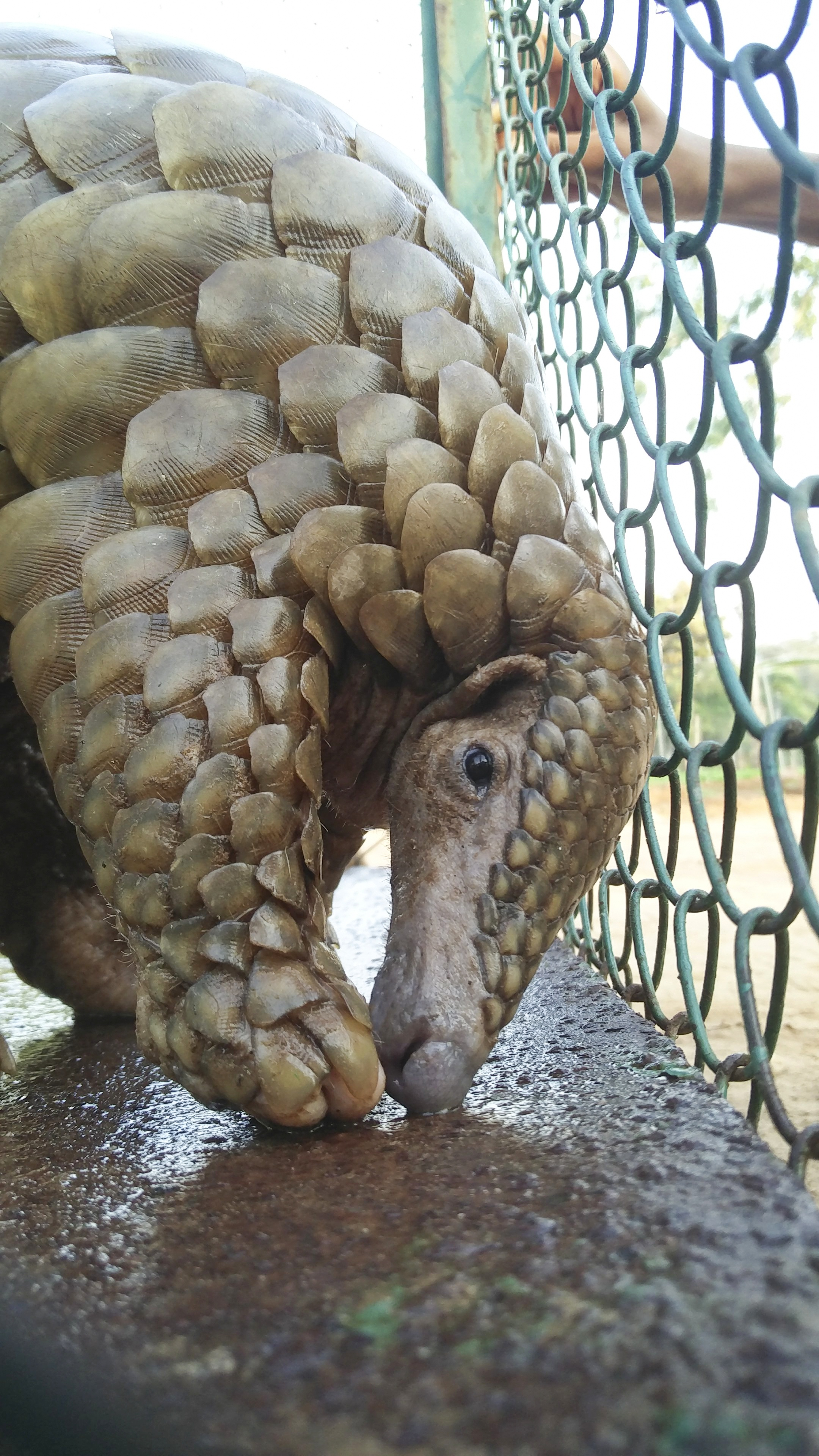 Indian Pangolin kept in cage before it released in forest at Gujarat, India